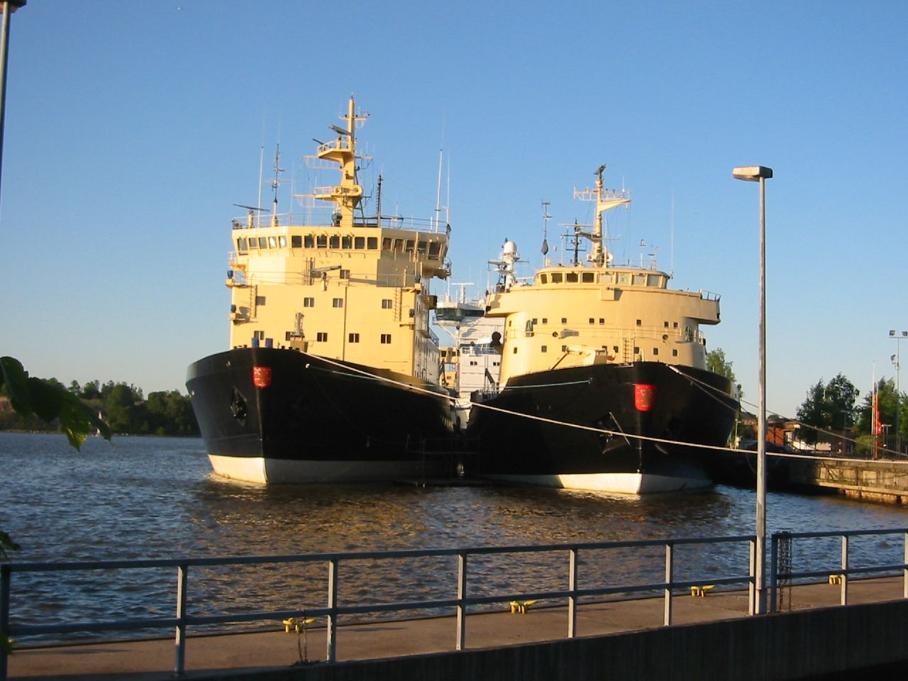 Icebreakers Voima and Apu in Katajanokka, Helsinki